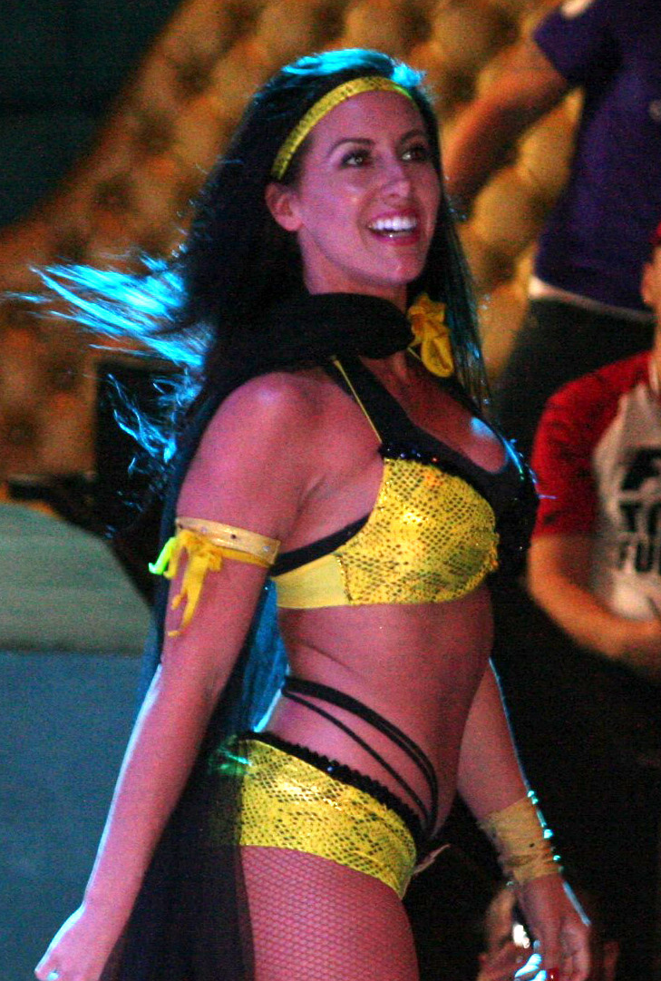 Santana Garrett at the FTPW at GILT Nightclub Orlando, FL March 30, 2017